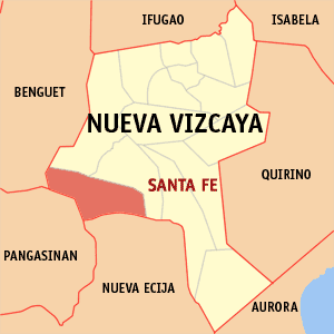 Map of Nueva Vizcaya showing the location of Santa Fe